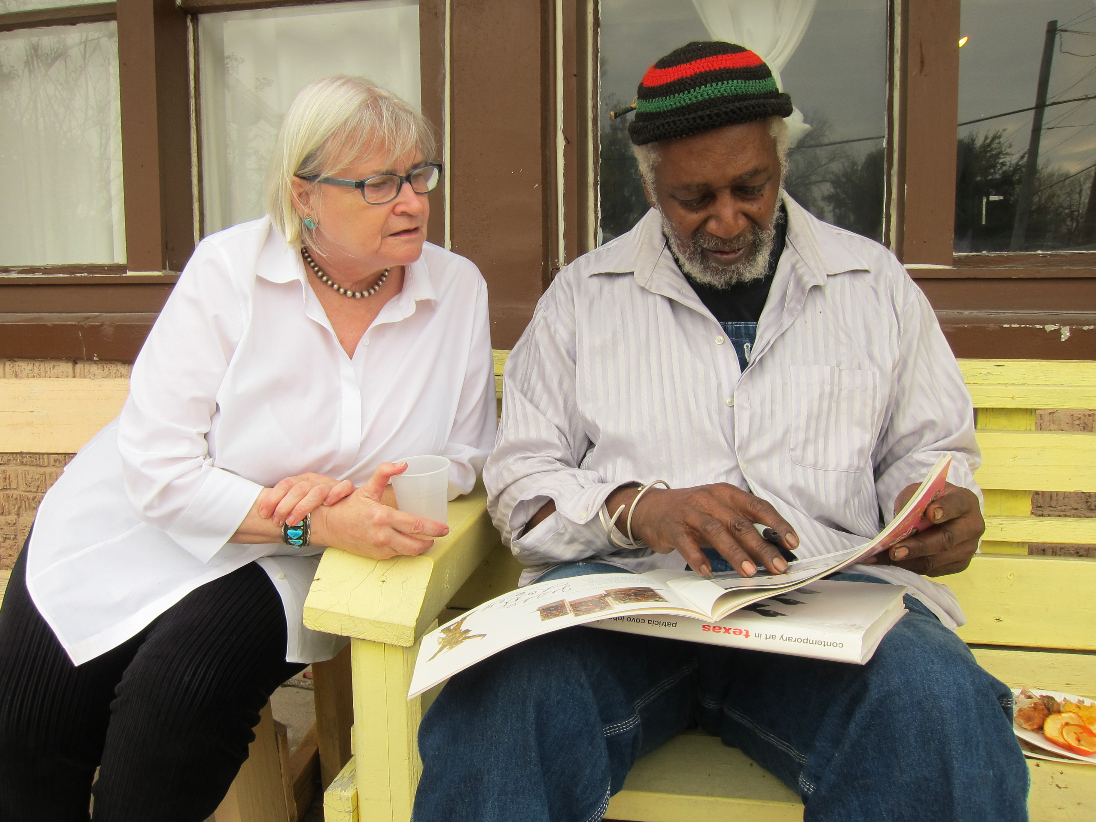 2014.12.17 linda shearer and jesse lott at project row houses, photo by pete gershon